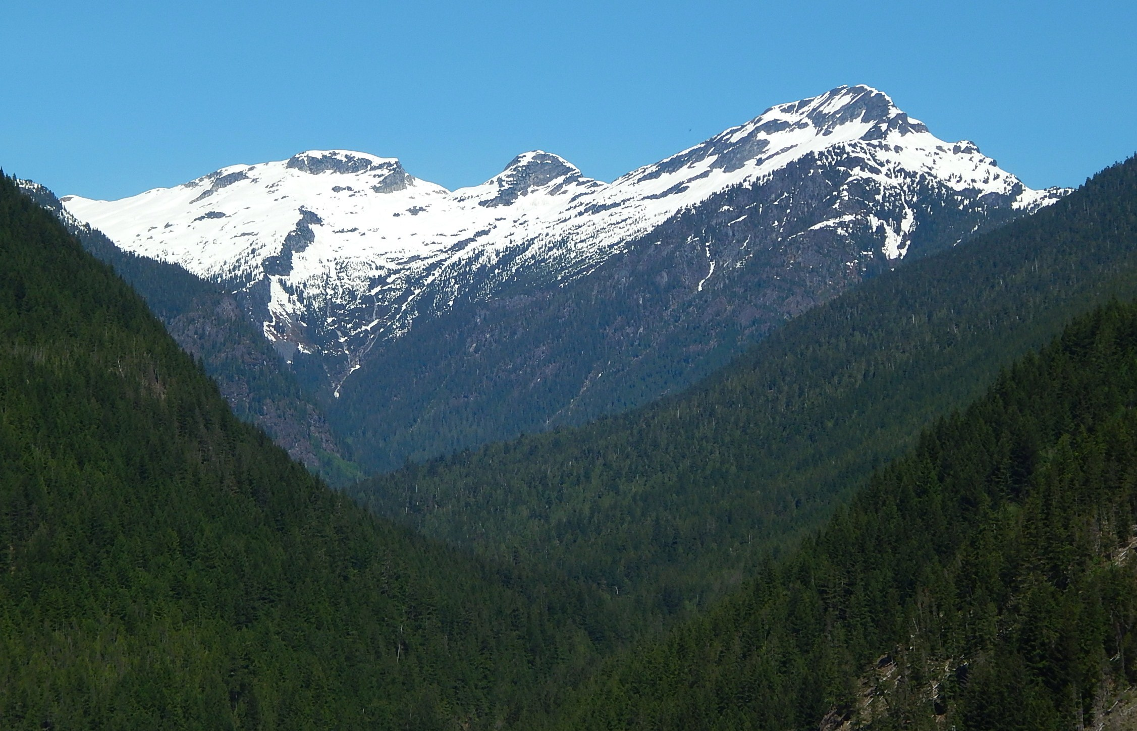 Rhino Butte 6914', Hippo Butte 6889', and Elephant Butte 7380' in the North Cascades National Park, WA